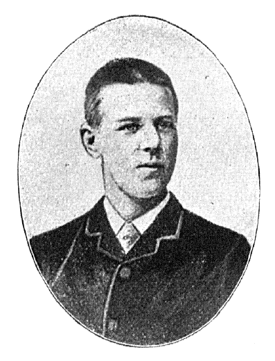 swedish botanist and polar explorer Alfred Björling (1871-1892)